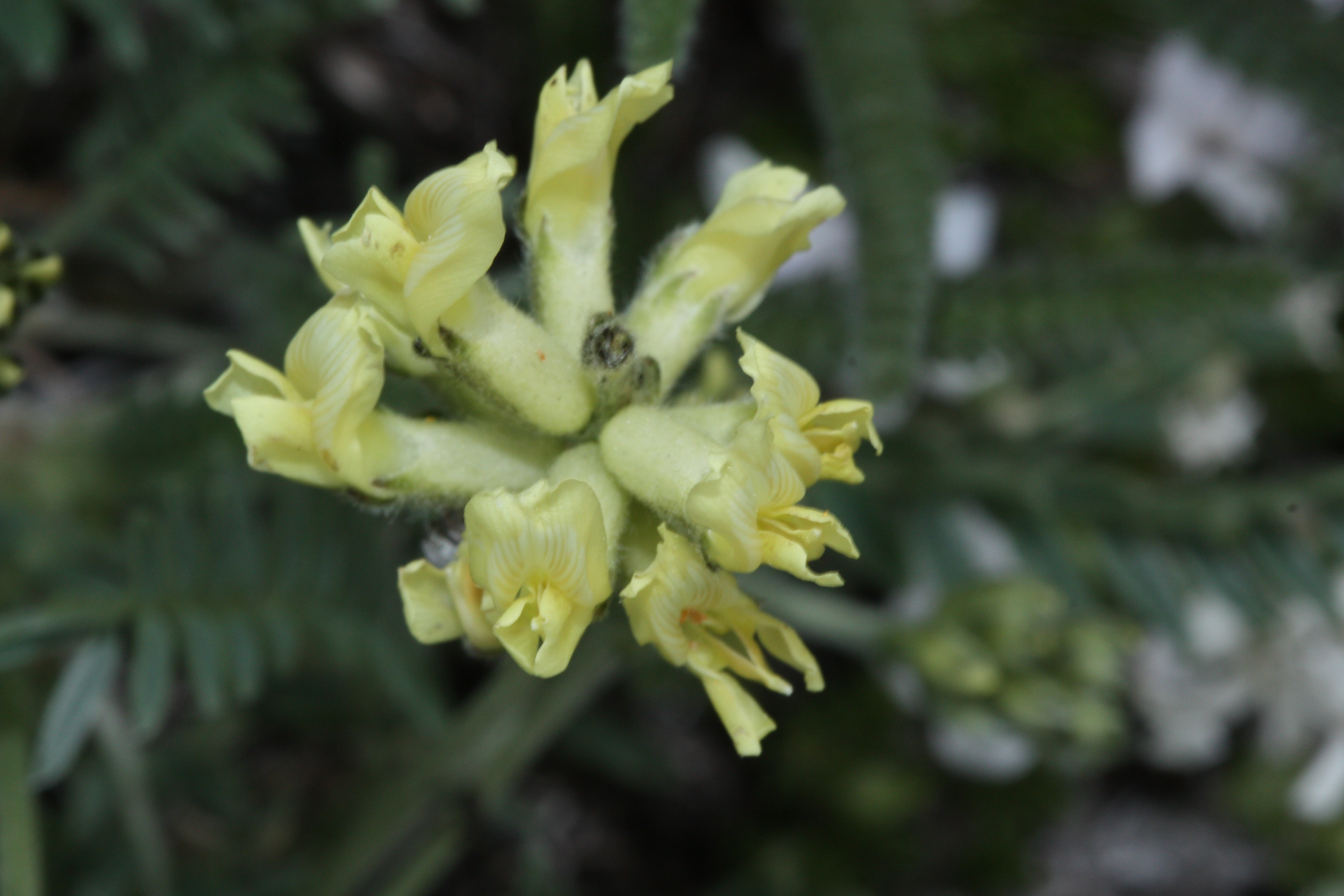 Yellow-flower Locoweed